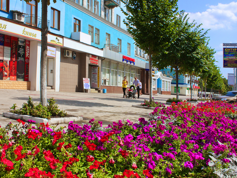 hgryr7567